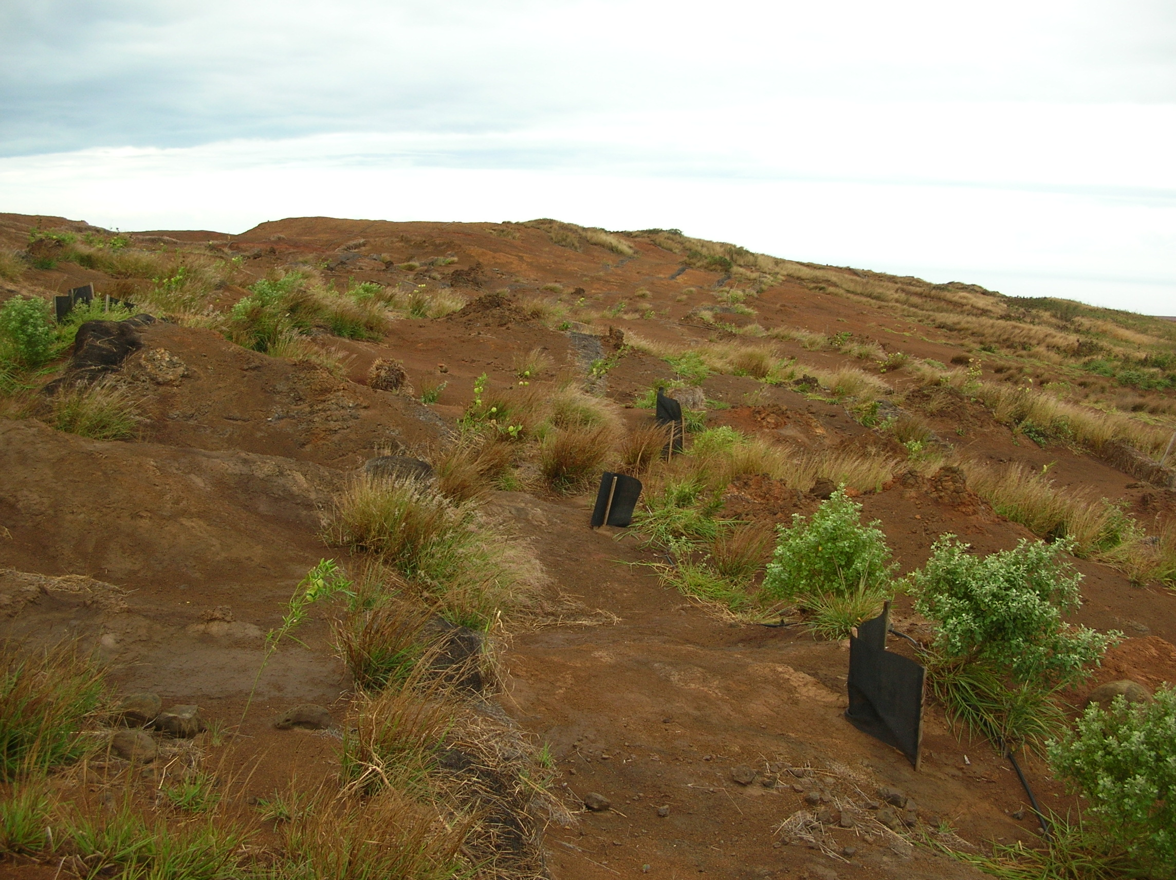 Heteropogon contortus (habit). Location: Kahoolawe, Lua Makika